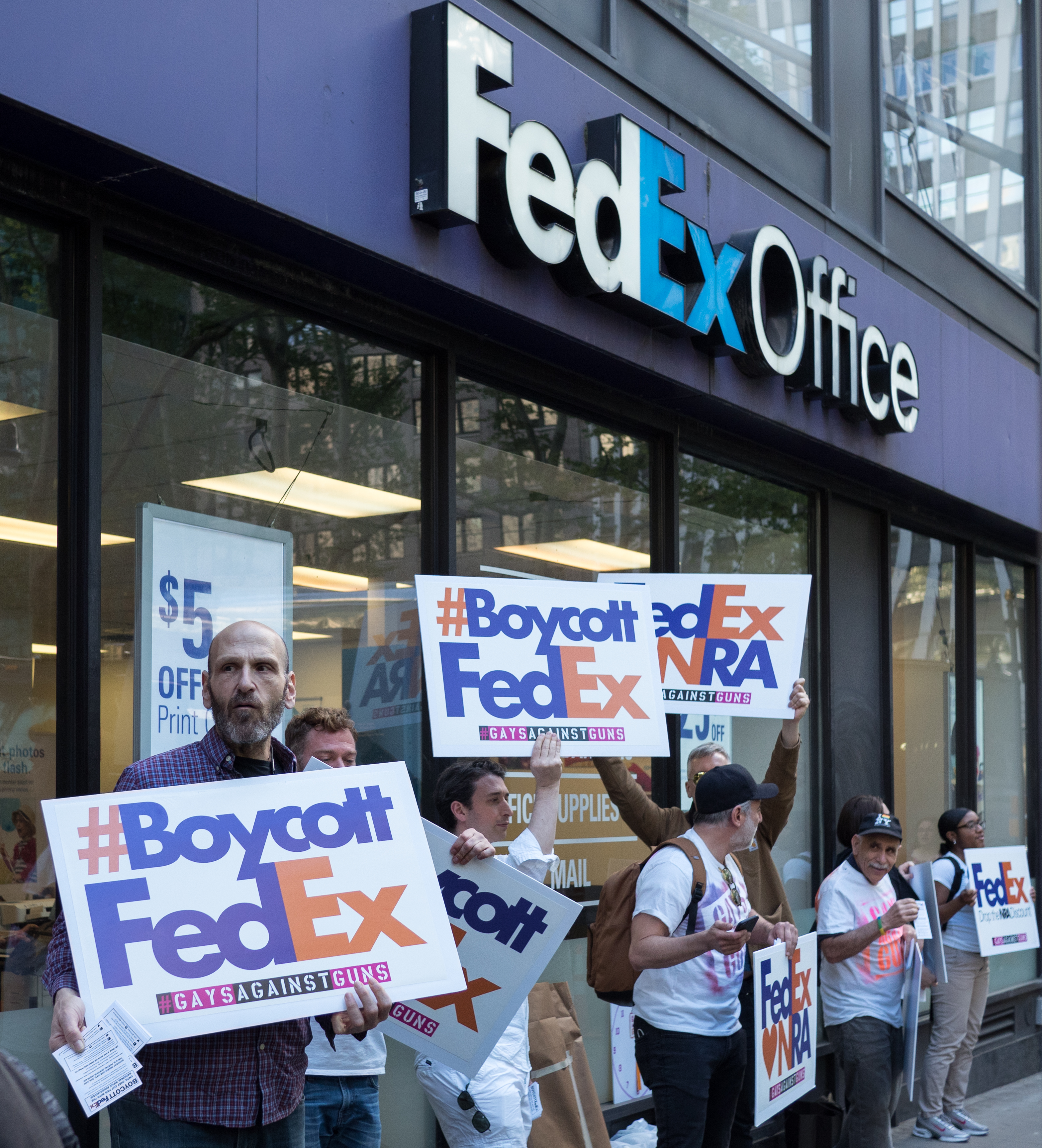 Protest outside a FedEx location in Midtown Manhattan.